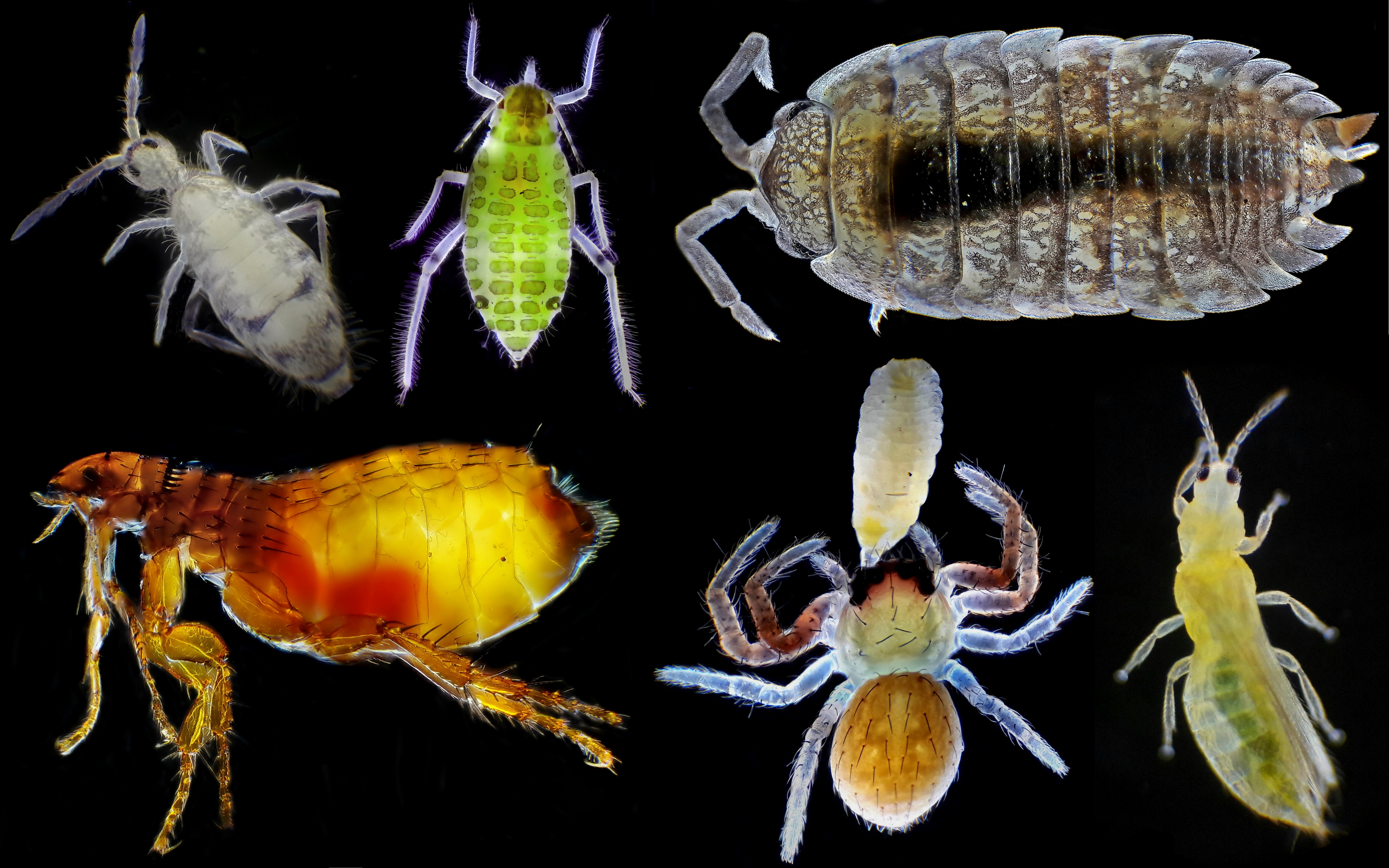 In the photo there are: a springtail; aphid; woodlouse; flea; spider; thrips. All photos are taken by the dark field method.